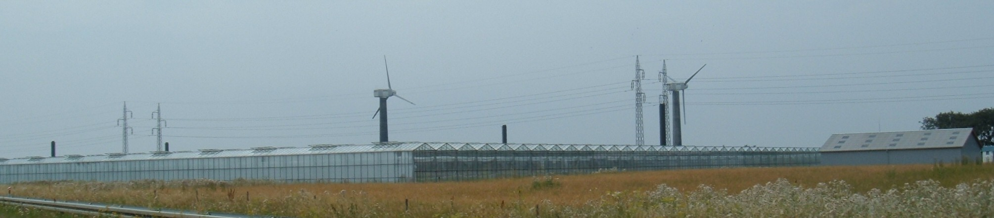 Greenhouses on the island of Masnedø, Denmark. The greenhouses and wind turbines (also visible) are part of a combined heat and power complex on the island which also includes a straw fired power station.